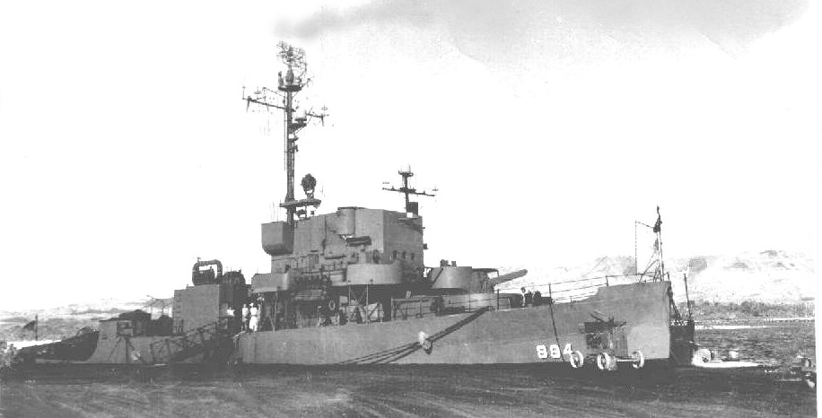 An undated photograph of USS PCE-884.